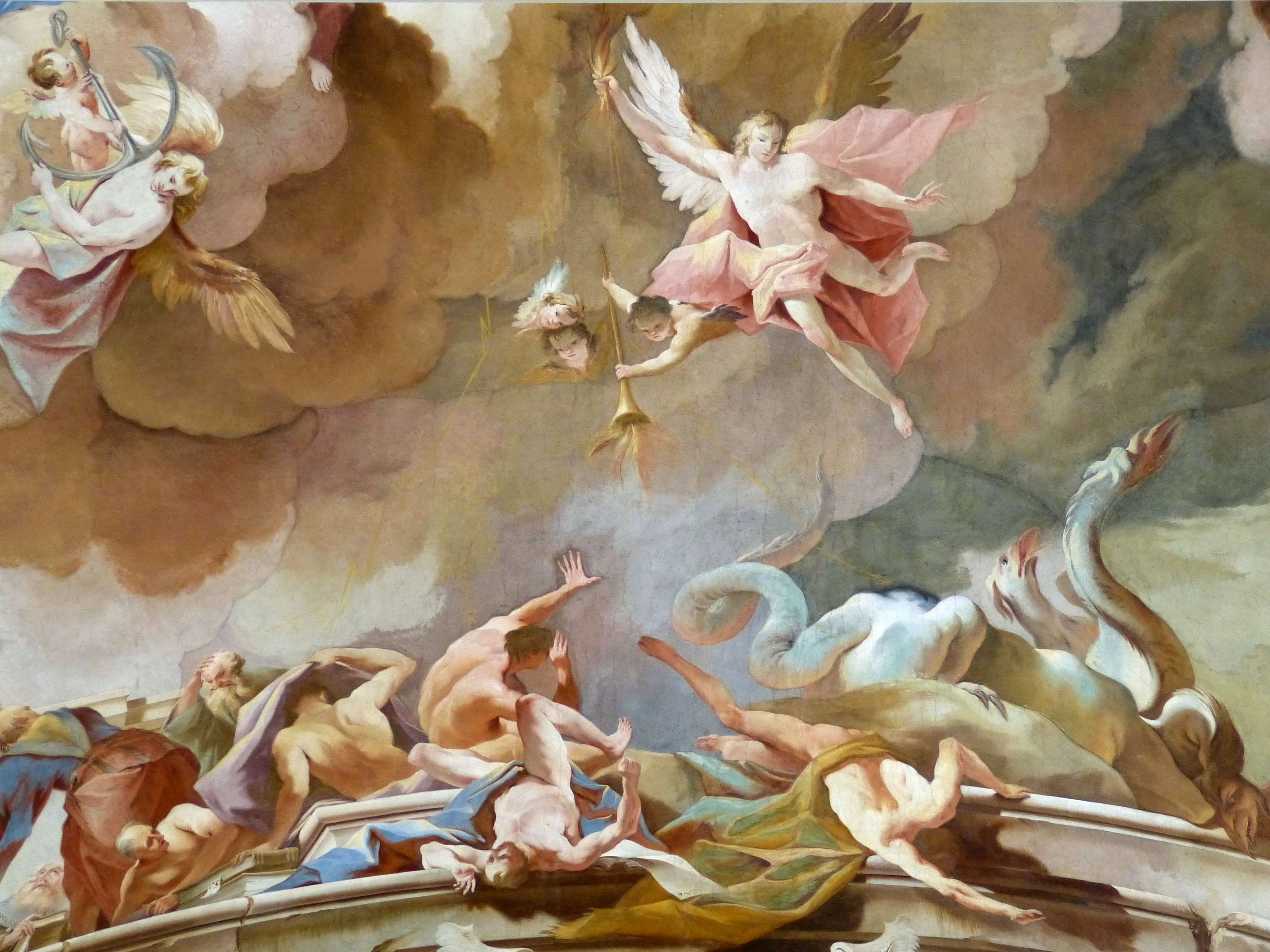 Fürstenzell ( Lower Bavaria ). Monastery church of the Assumption of Mary: Fresco ( 1744-48 ) of the Assumption of Mary by Johann Jakob Zeiller - detail:Fall of vices and heresies.